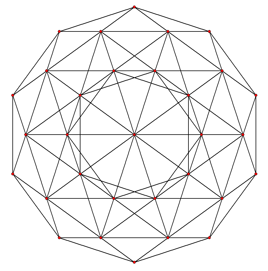 Schläfli-Hess_polychoron Edge models: Icosahedral 120-cell Grand 120-cell Great 120-cell Also: 600-cell